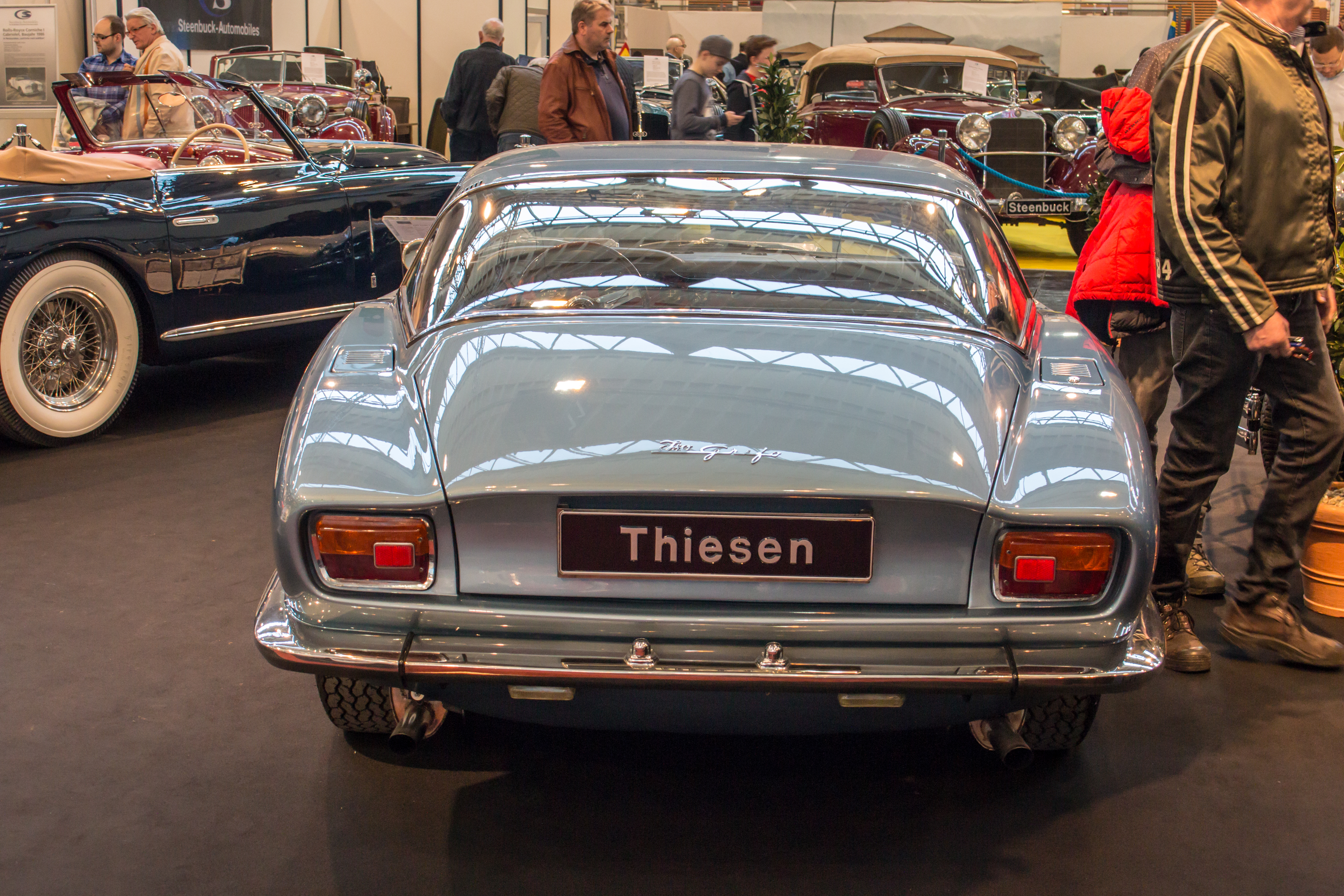 Iso Grifo, Techno Classica 2018, Essen